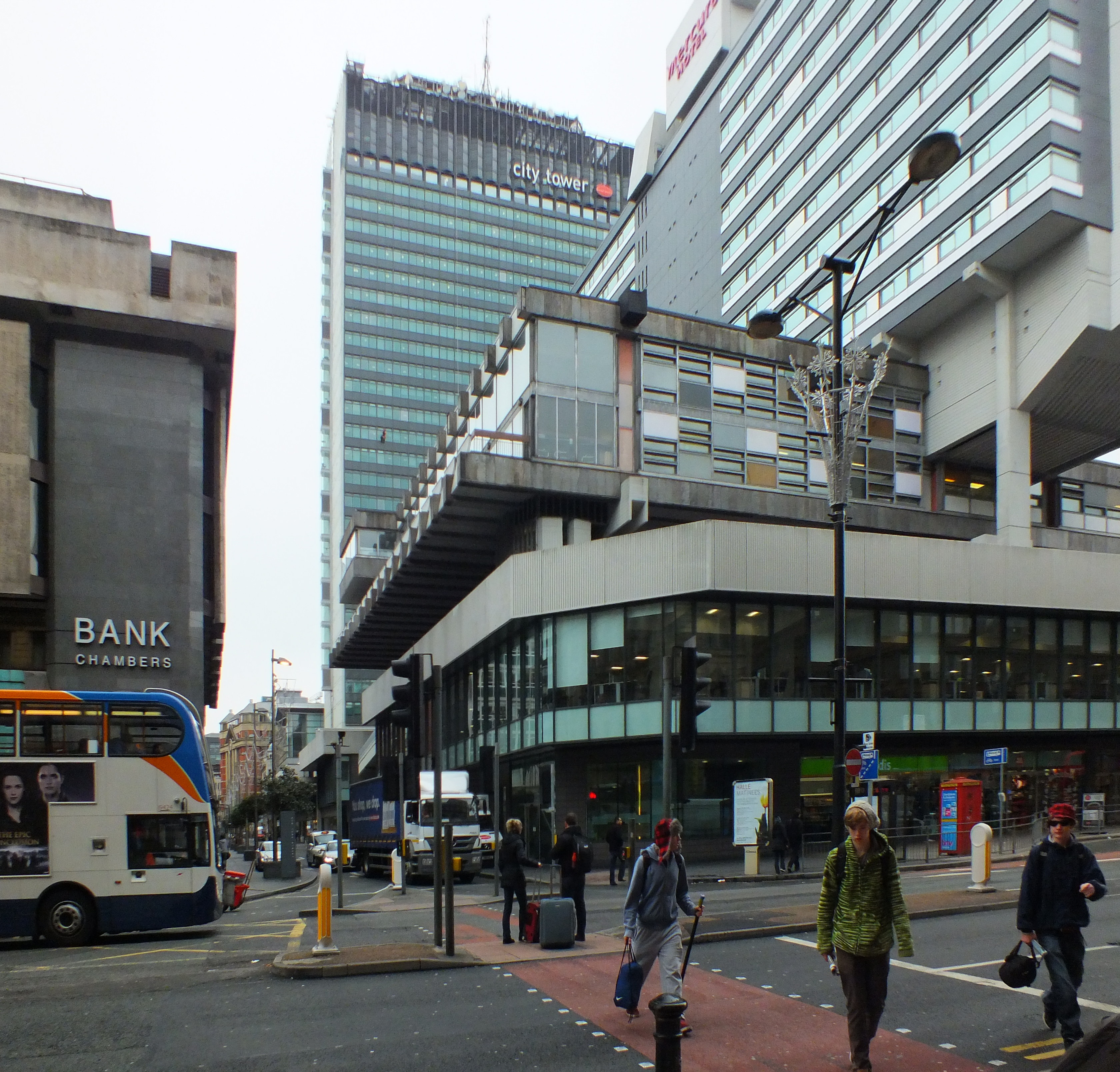 Portland Street, Manchester England. A street of prestigious warehouses now converted for other residential and office uses. Piccadilly Plaza